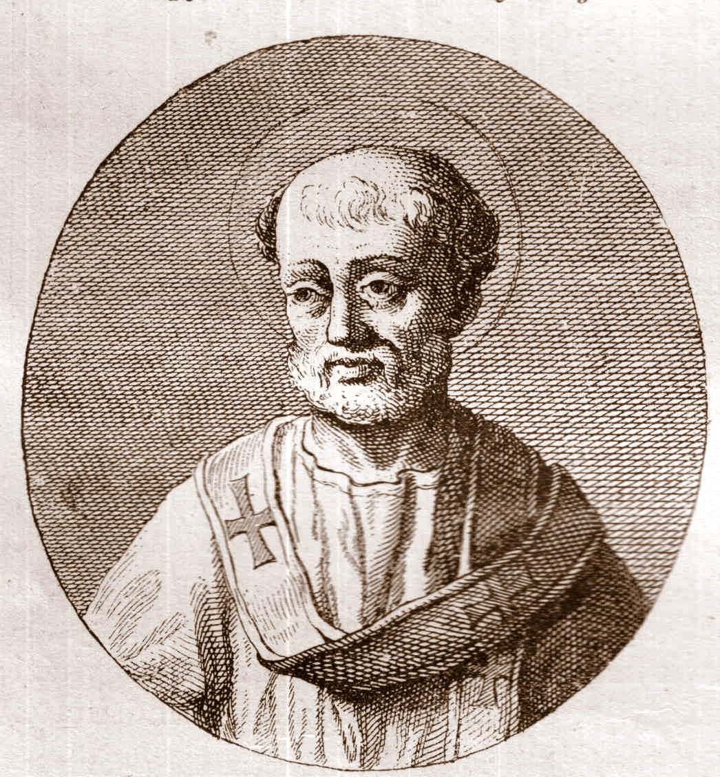 Alexander of Alexandria, patriarch and bishop (313-326)